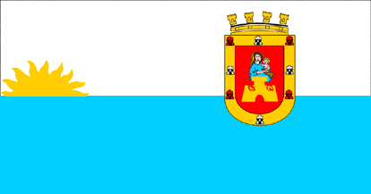 Flag of Colon Department (Honduras) and its capital Trujillo